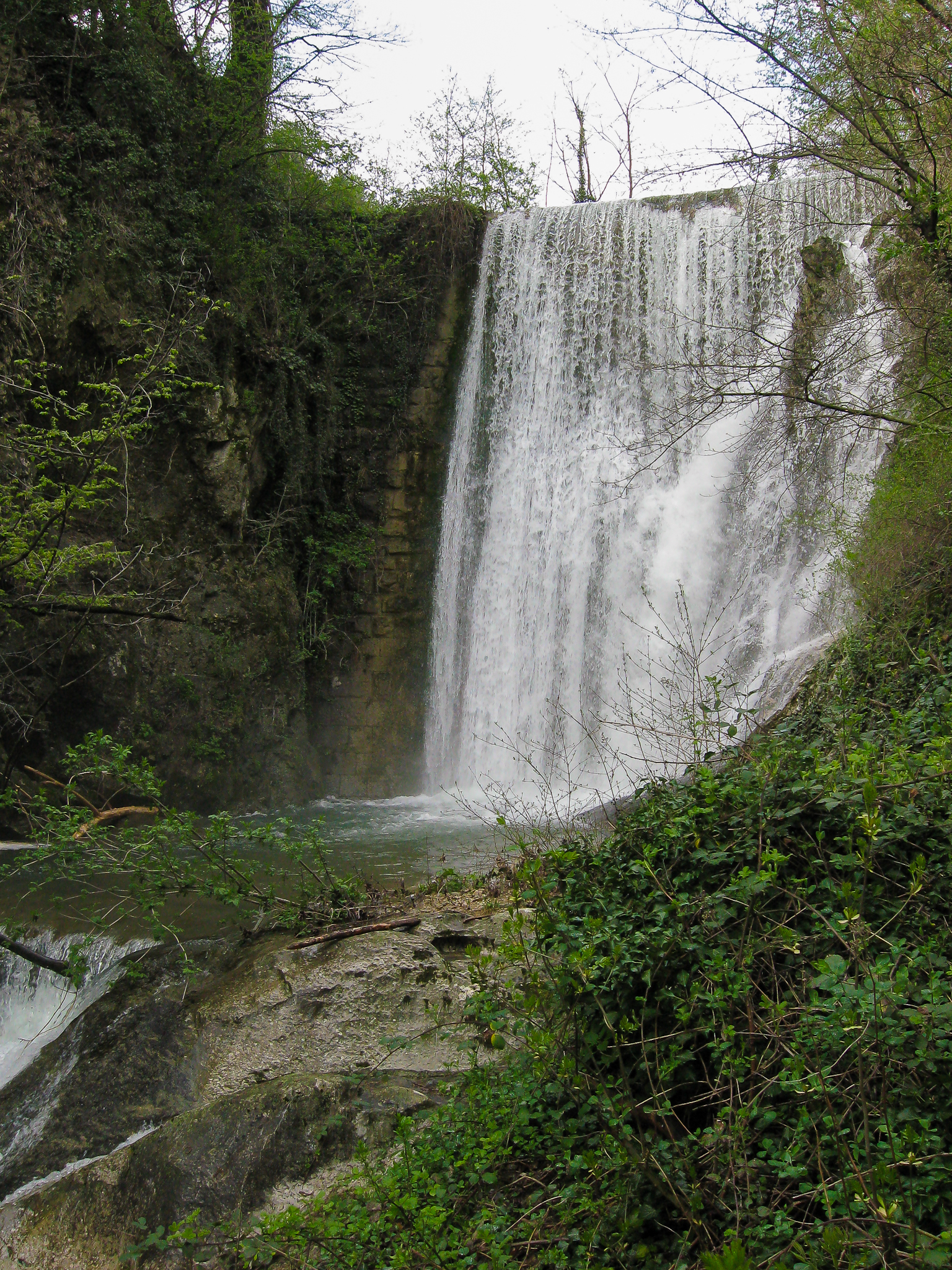 Bela, Vrhpolje